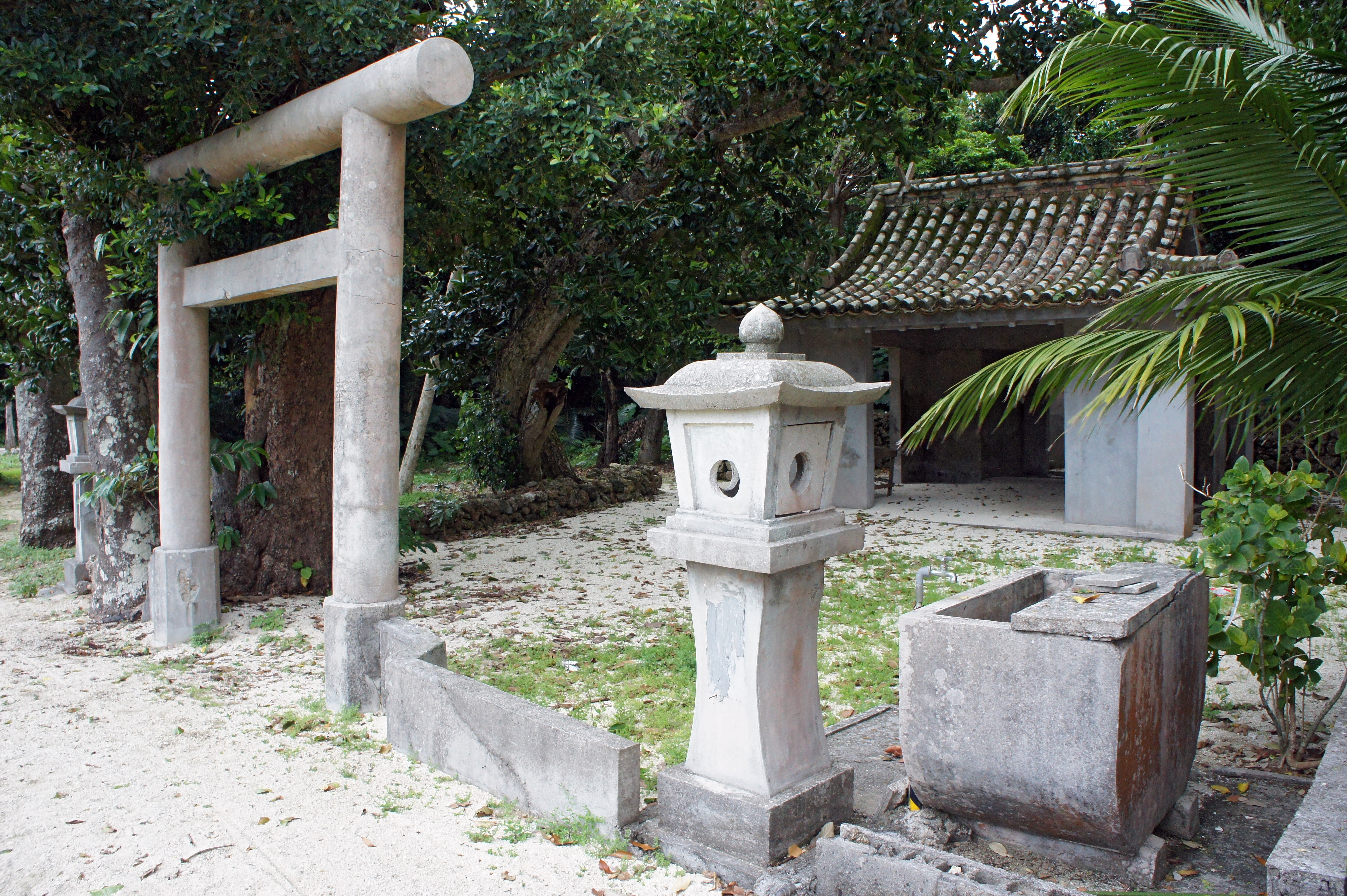 Yumuchi-On in Taketomi Island, Taketomi Town, Okinawa Prefecture, Japan.